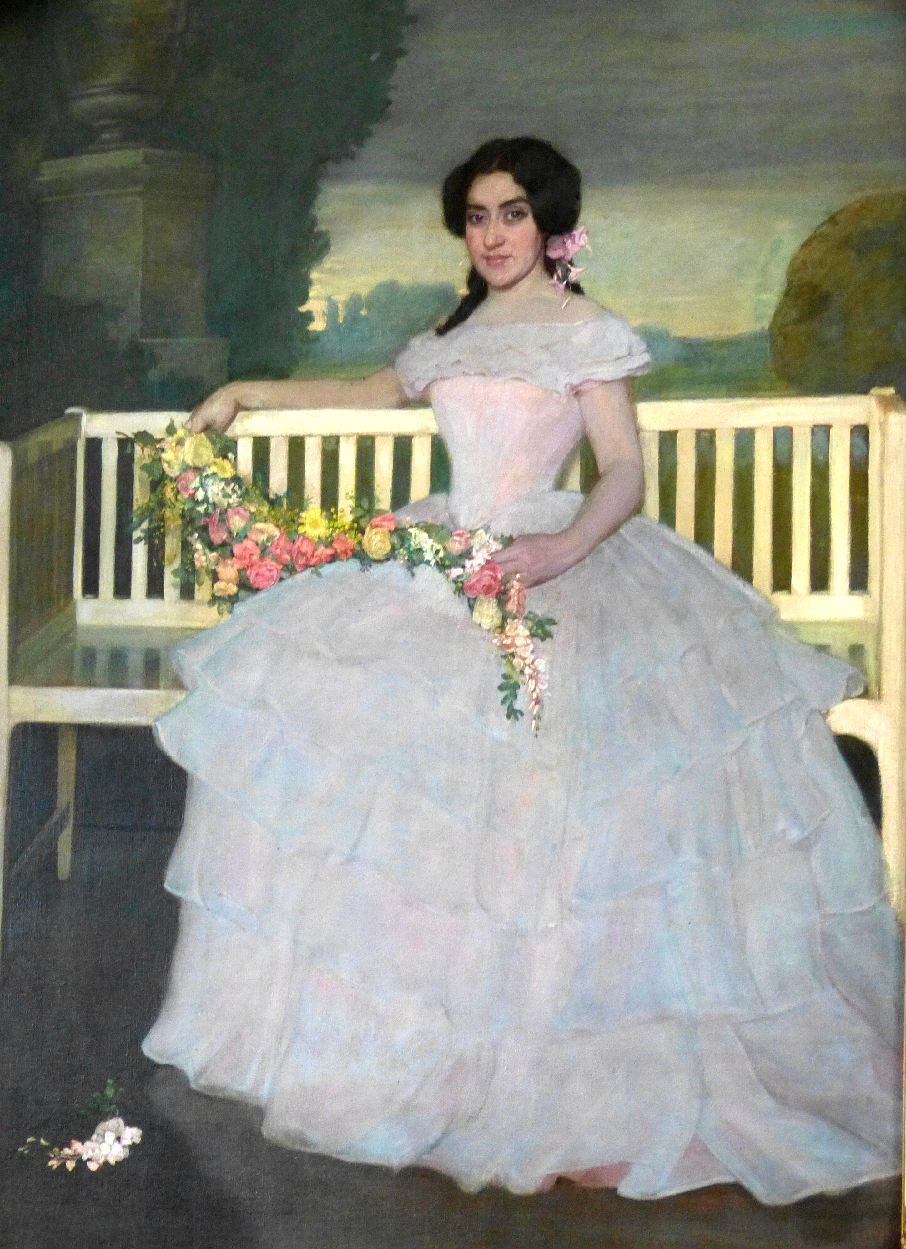 Ortenburg ( Lower Bavaria ). Castle museum - Portrait of actress Centa Bré by Adolf Heller.